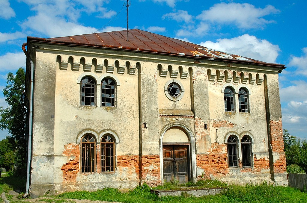 Synagogue in Wielkie Oczy